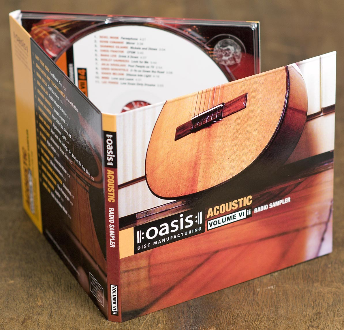 Digipak 6 Panel UV Gloss Finish Right Tray 4/0 radio broadcast compilation